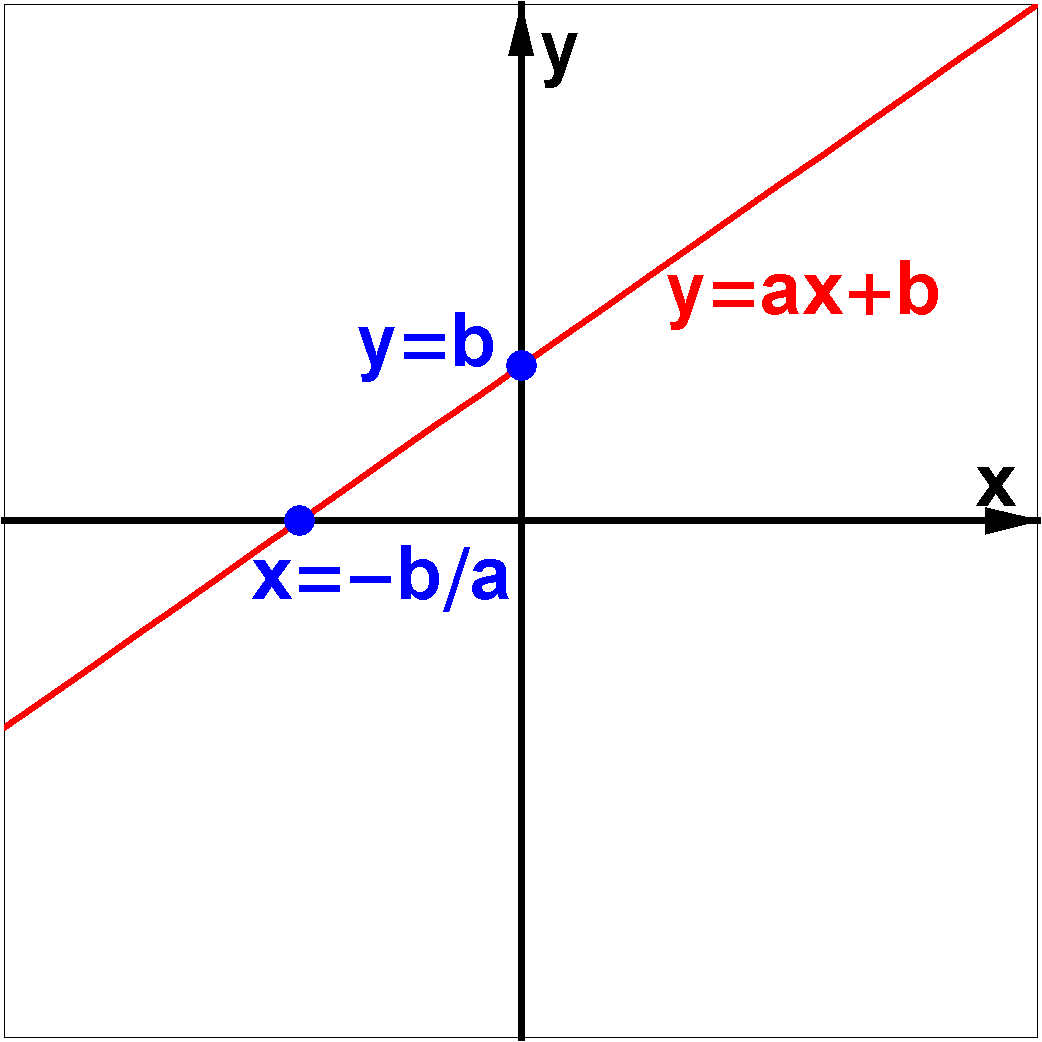 graf of linear equation